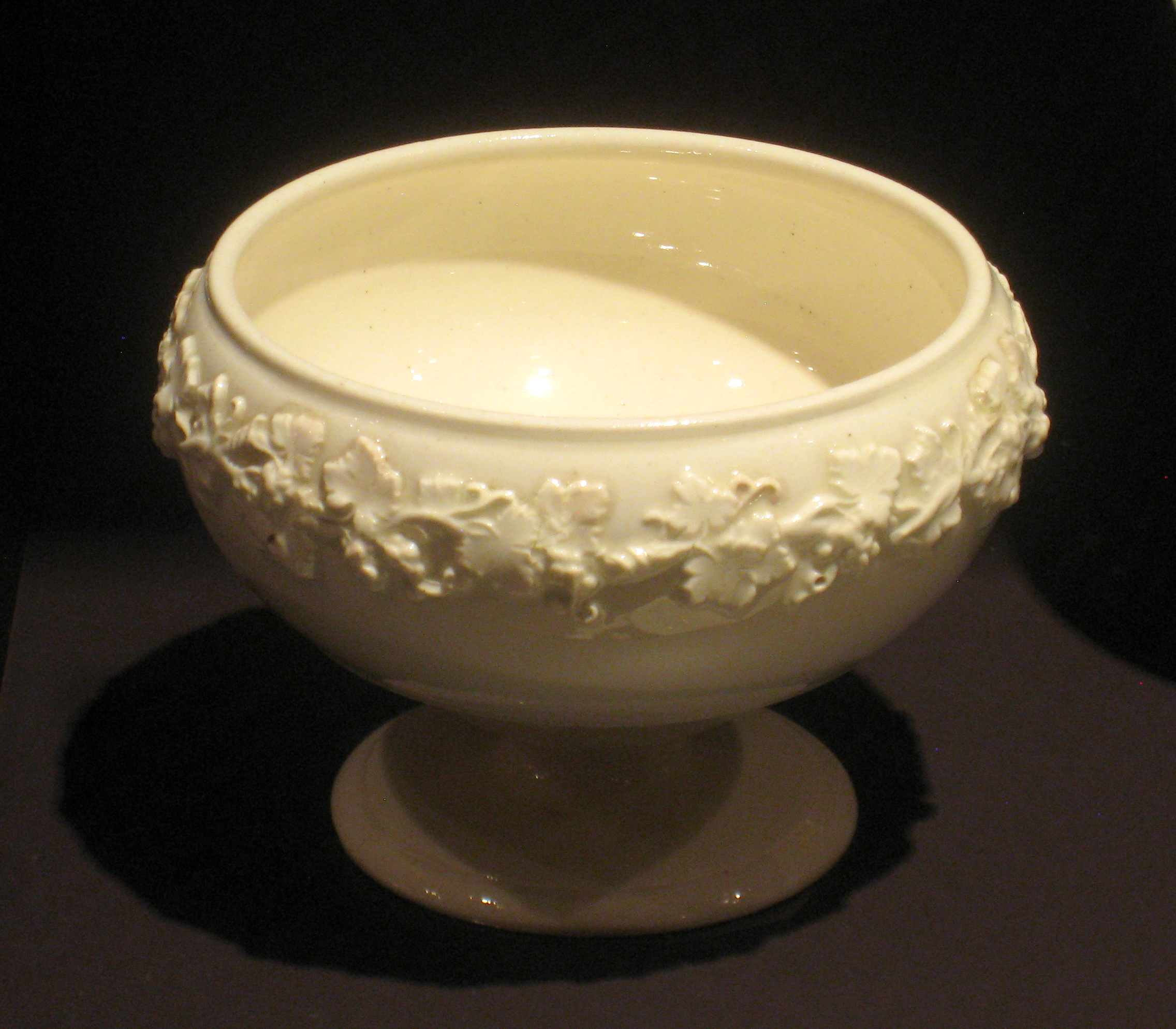 Salt cellar, earthenware; Wedgwood, 19th century. Pottery exhibited in the DAR Museum, National Society Daughters of the American Revolution, 1776 D Street NW, Washington, DC, USA.